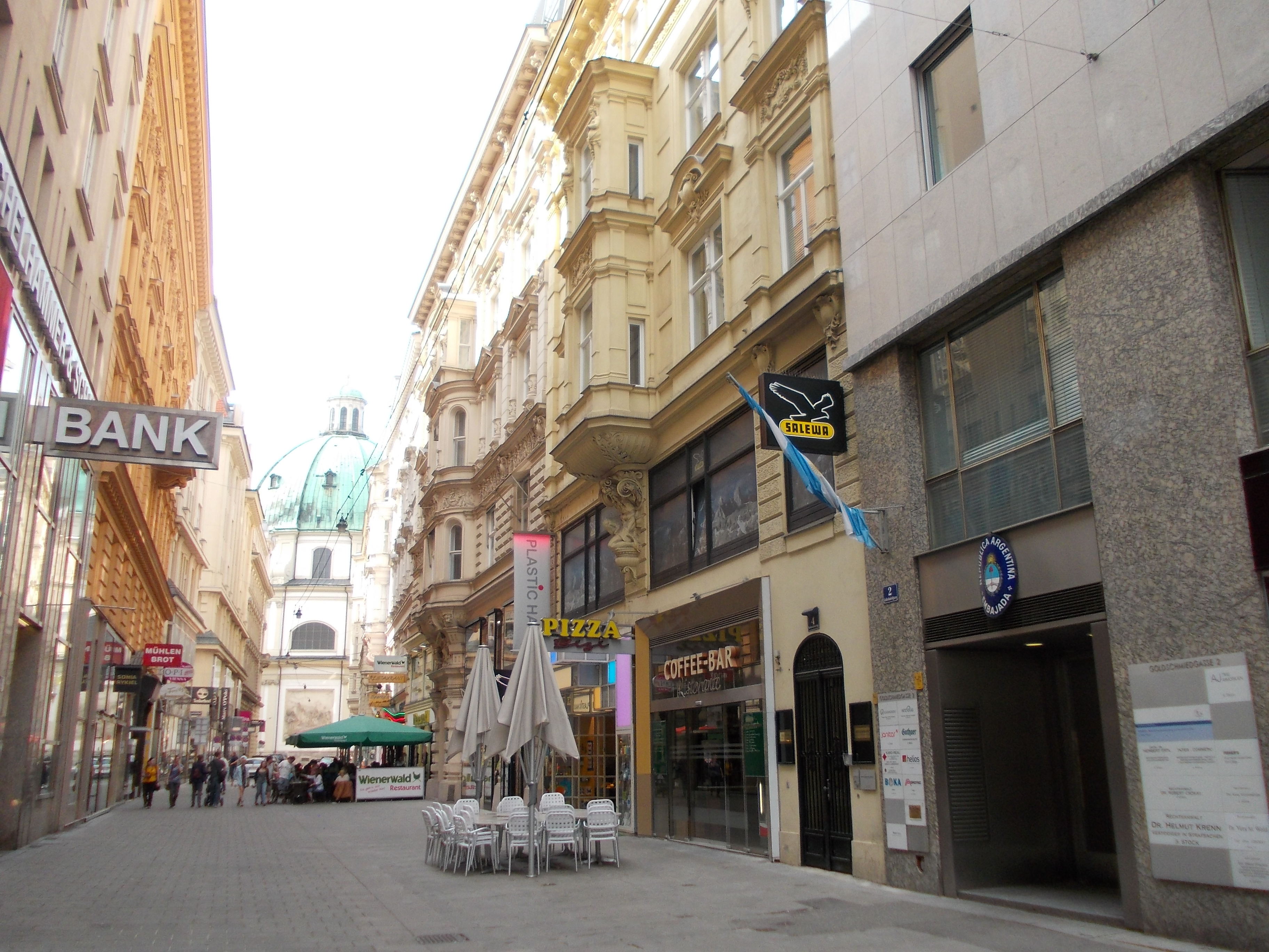 Embassy of Argentina in Vienna